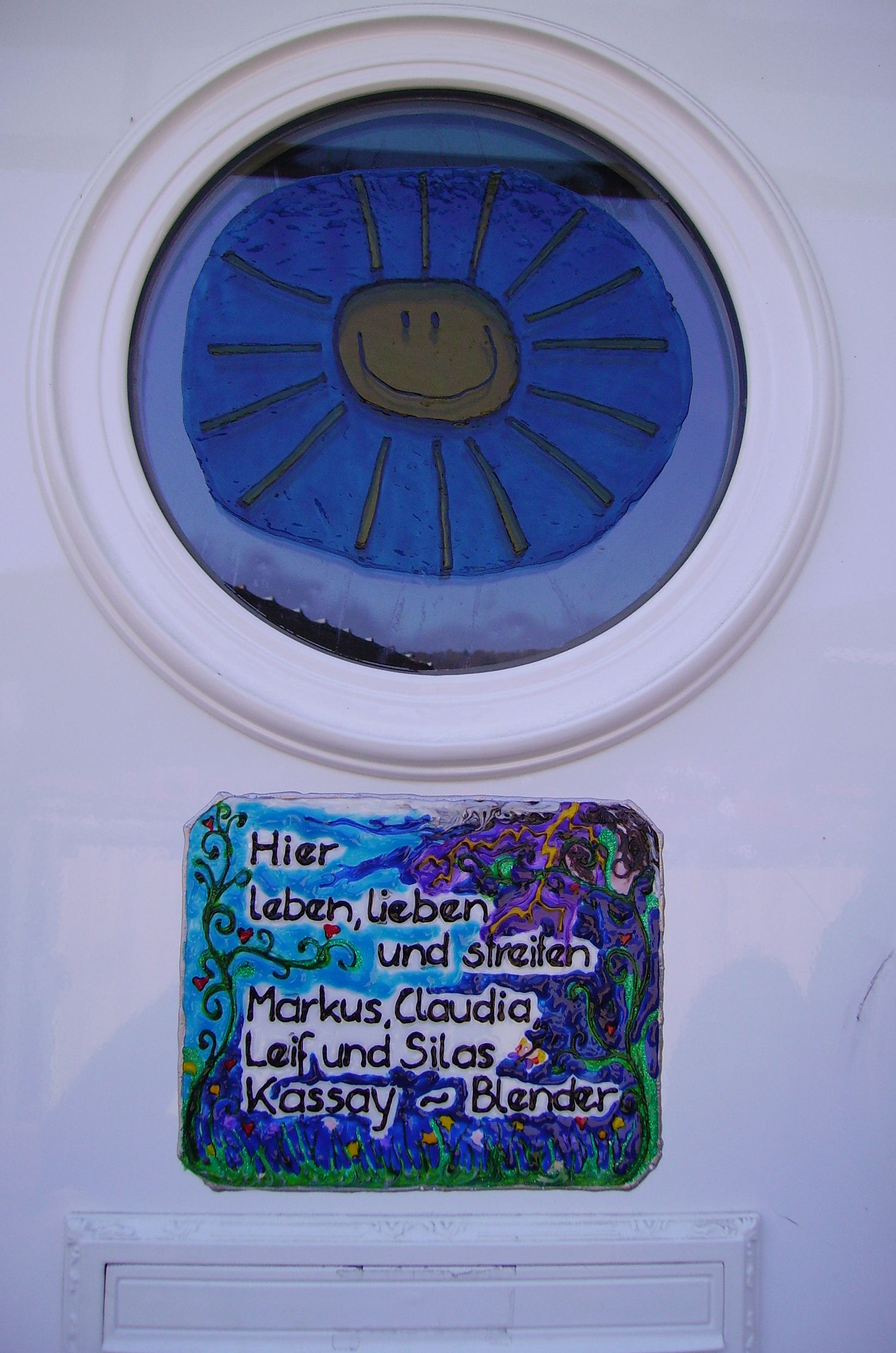 door plate in Neckargemünd, Germany